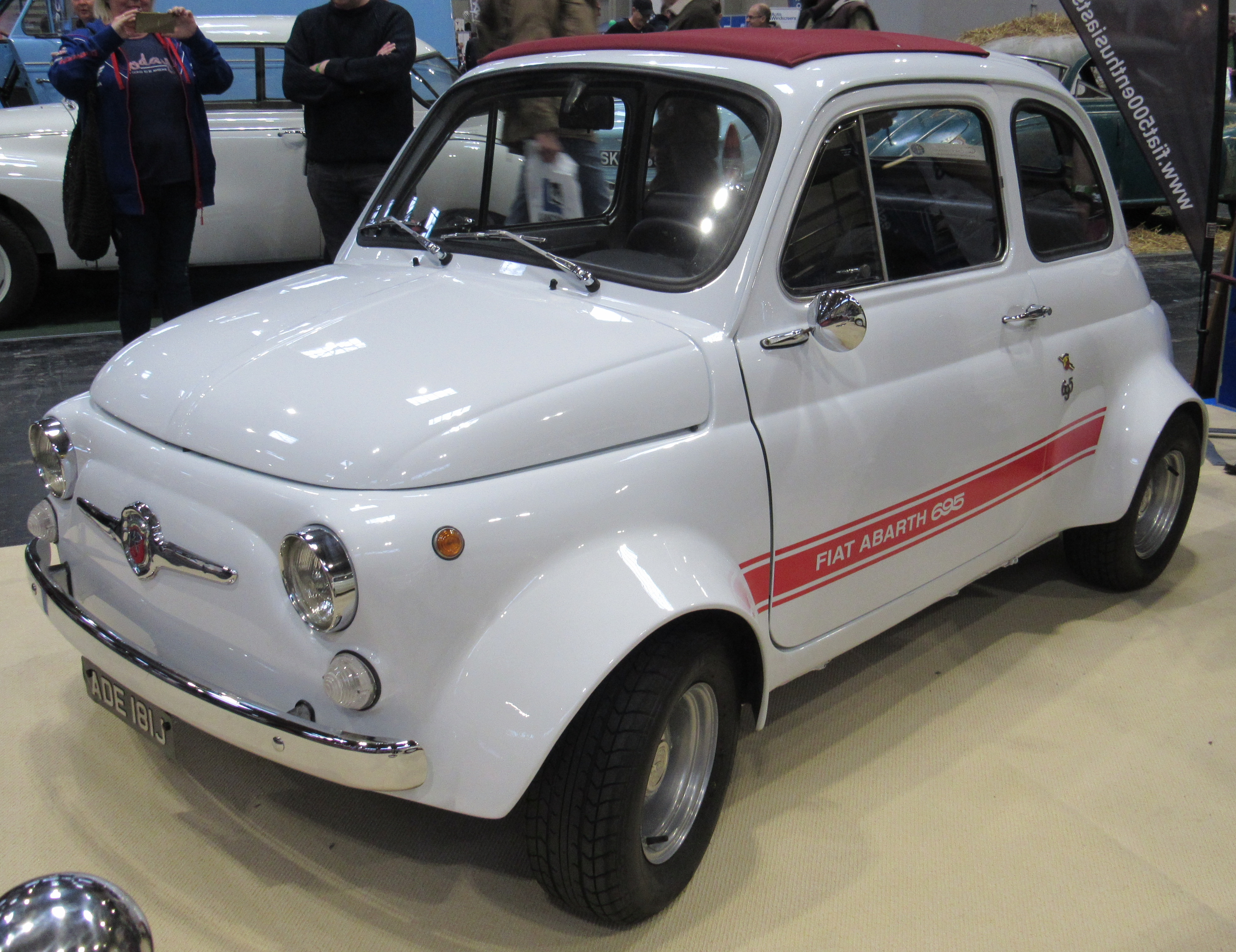 1971 Fiat Abarth 695 Taken at the NEC Classic Motor Show 2017